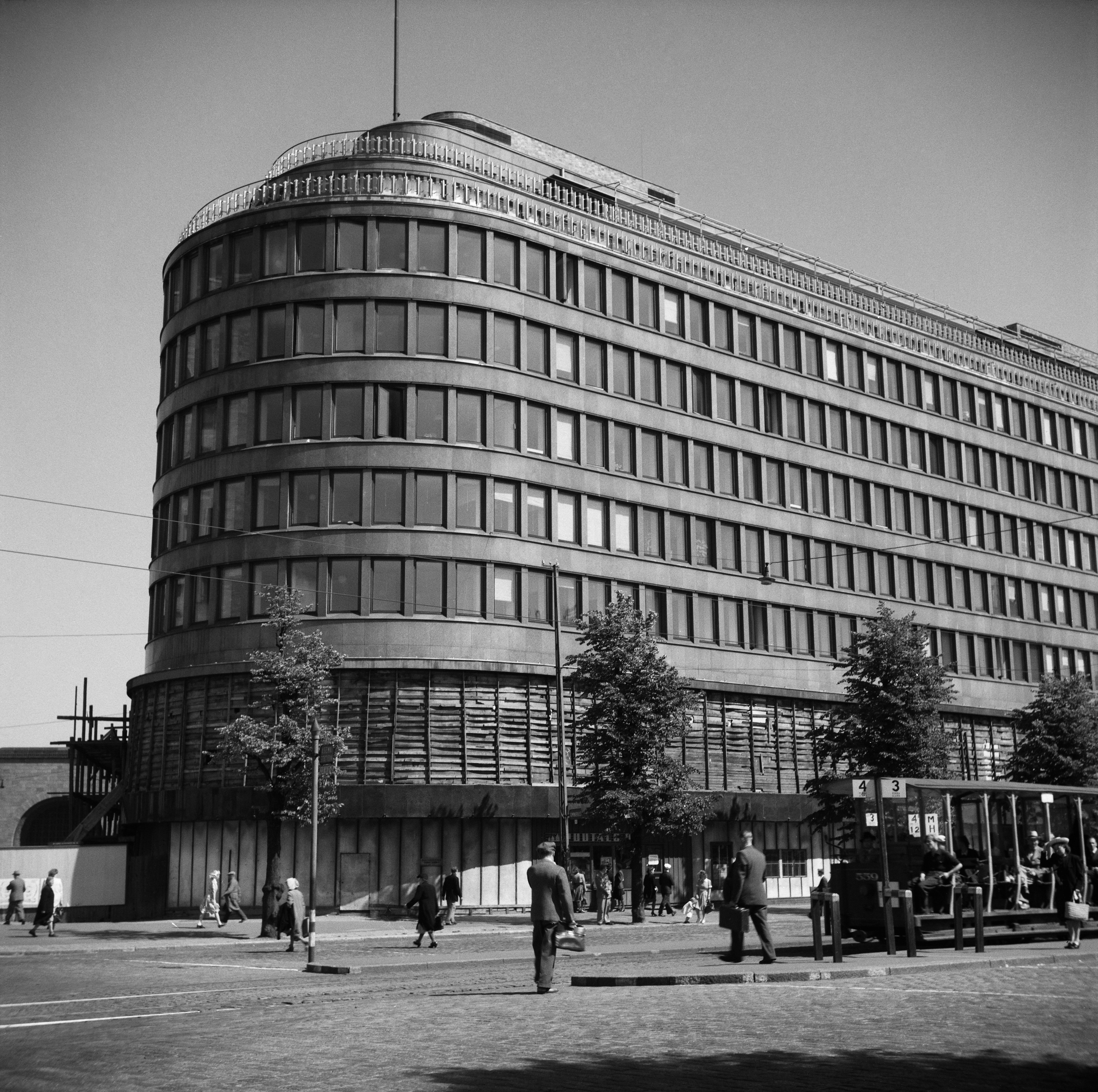 Helsinki, 1947, street view in downtown. At the junction between Mannerheimintie and Postikatu department store Sokos is still under construction.